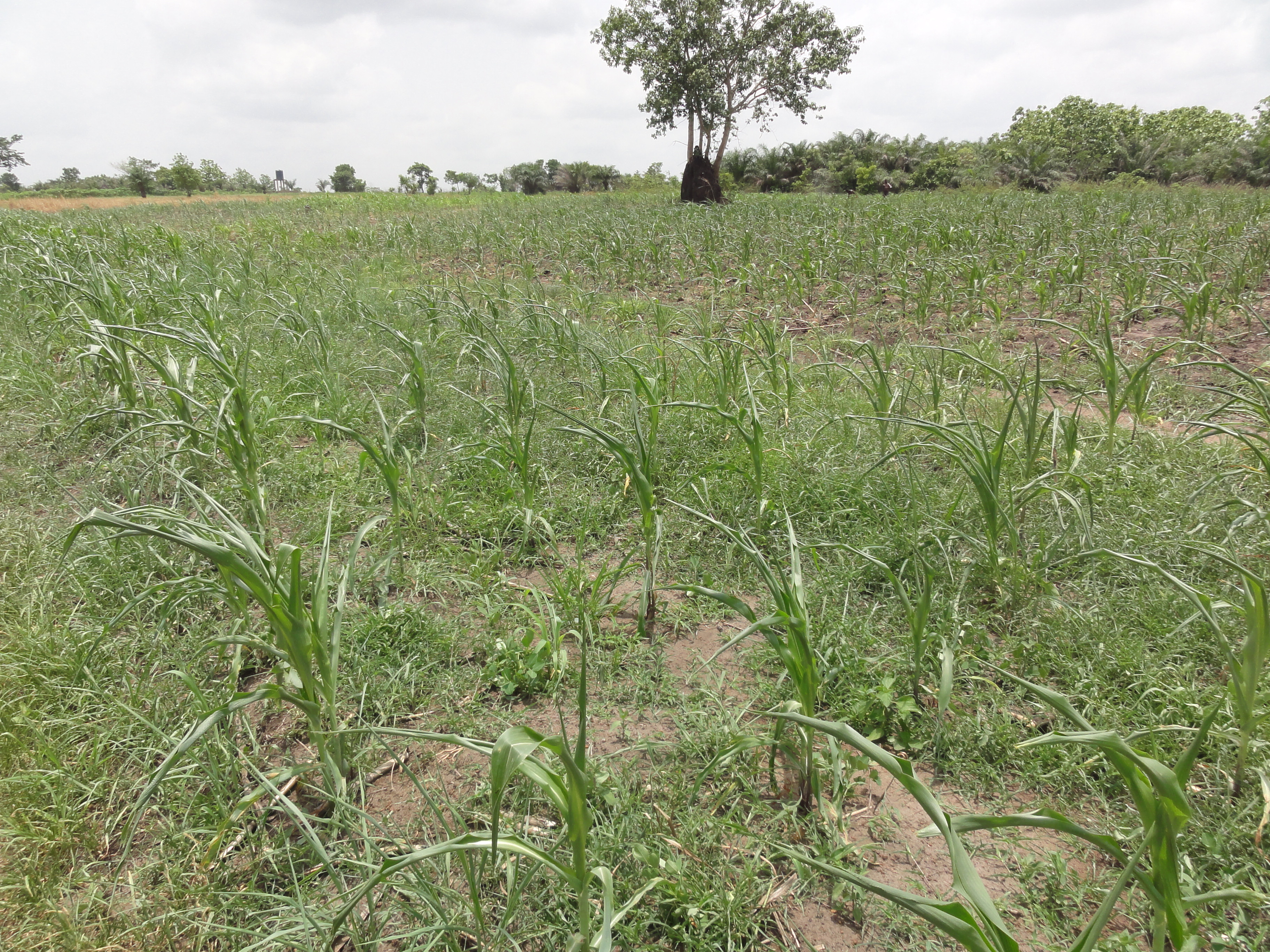 Agriculture in inland valleys in Togo